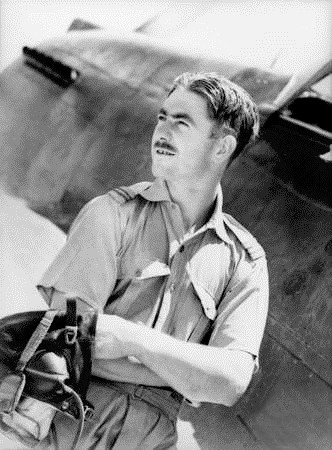 British Mandate of Palestine, 6 June 1941. Flying Officer Peter Turnbull of No. 3 (RAAF) Squadron, one of the original and best known fighter pilots in the Middle East has recently been testing the new Tomahawk planes with which the squadron has been equipped. He is from Glen Innes, N.S.W.